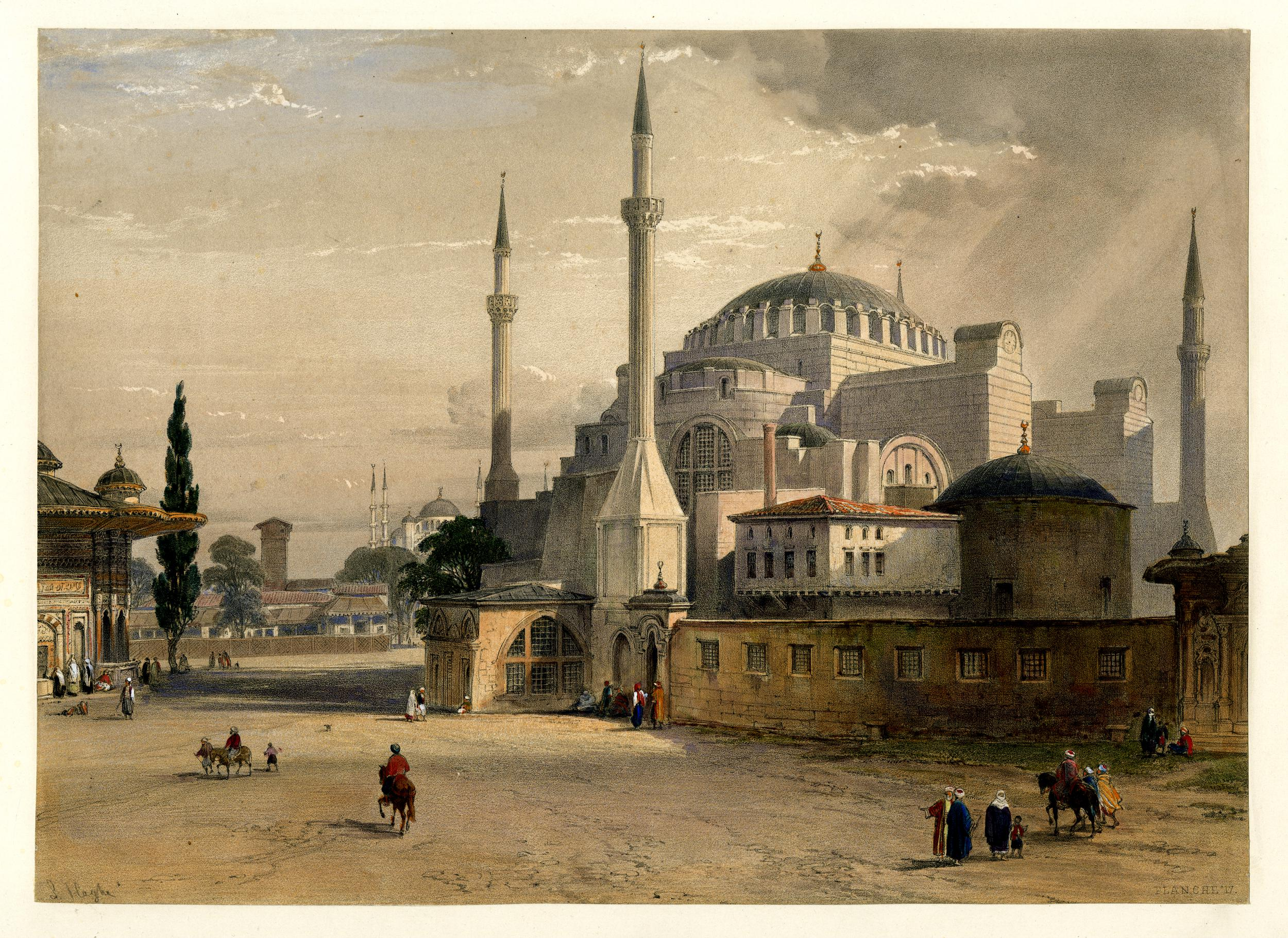 Plate 17. Square in Istanbul, with the Hagia Sophia mosque at right, part of an ornate pavilion at left, and several figures, some on horseback; print pasted onto backing sheet; after Fossati. Tinted lithograph with hand-colouring